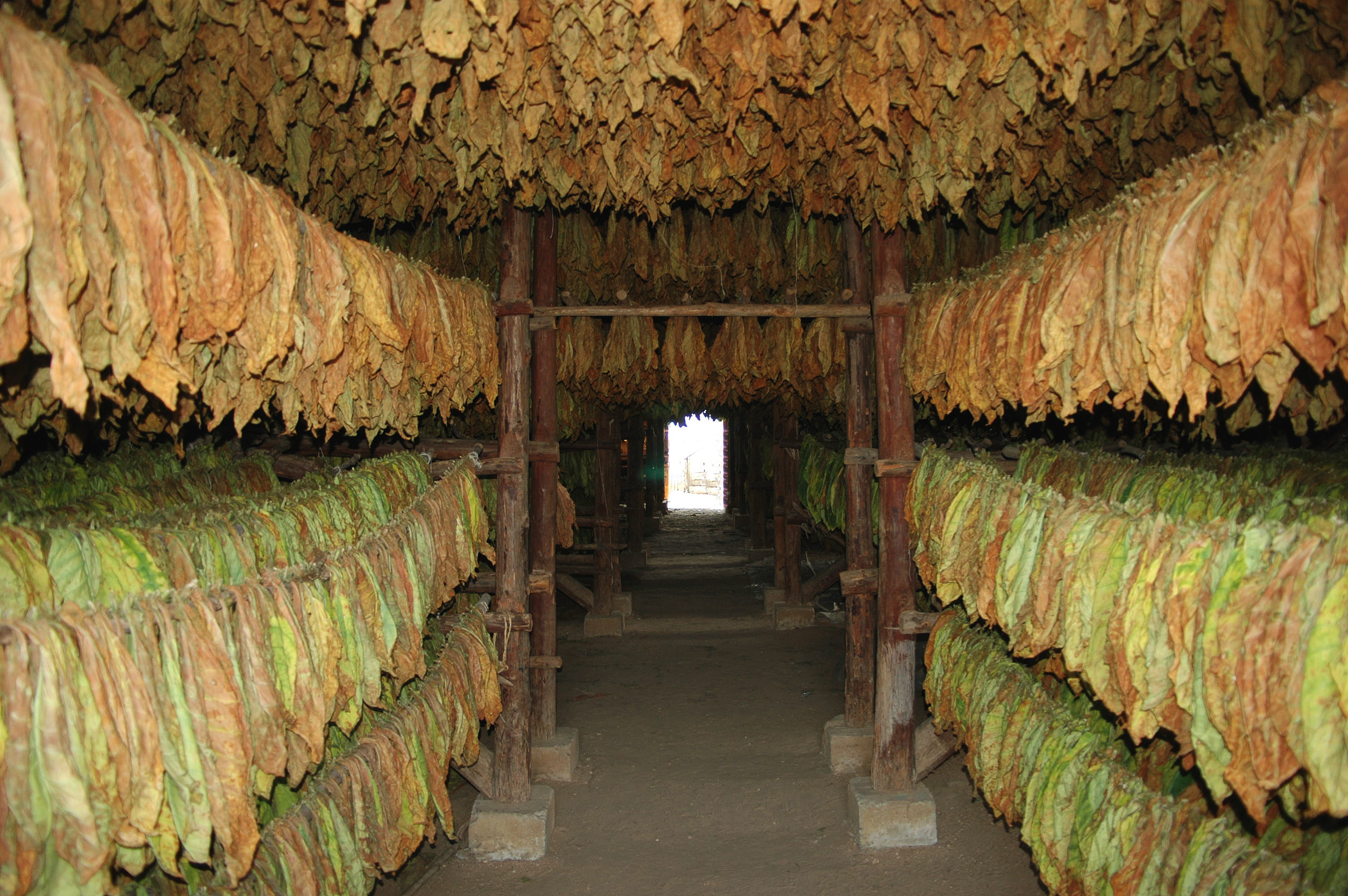 Pinar del Rio, Cuba, drying of tobacco leaves